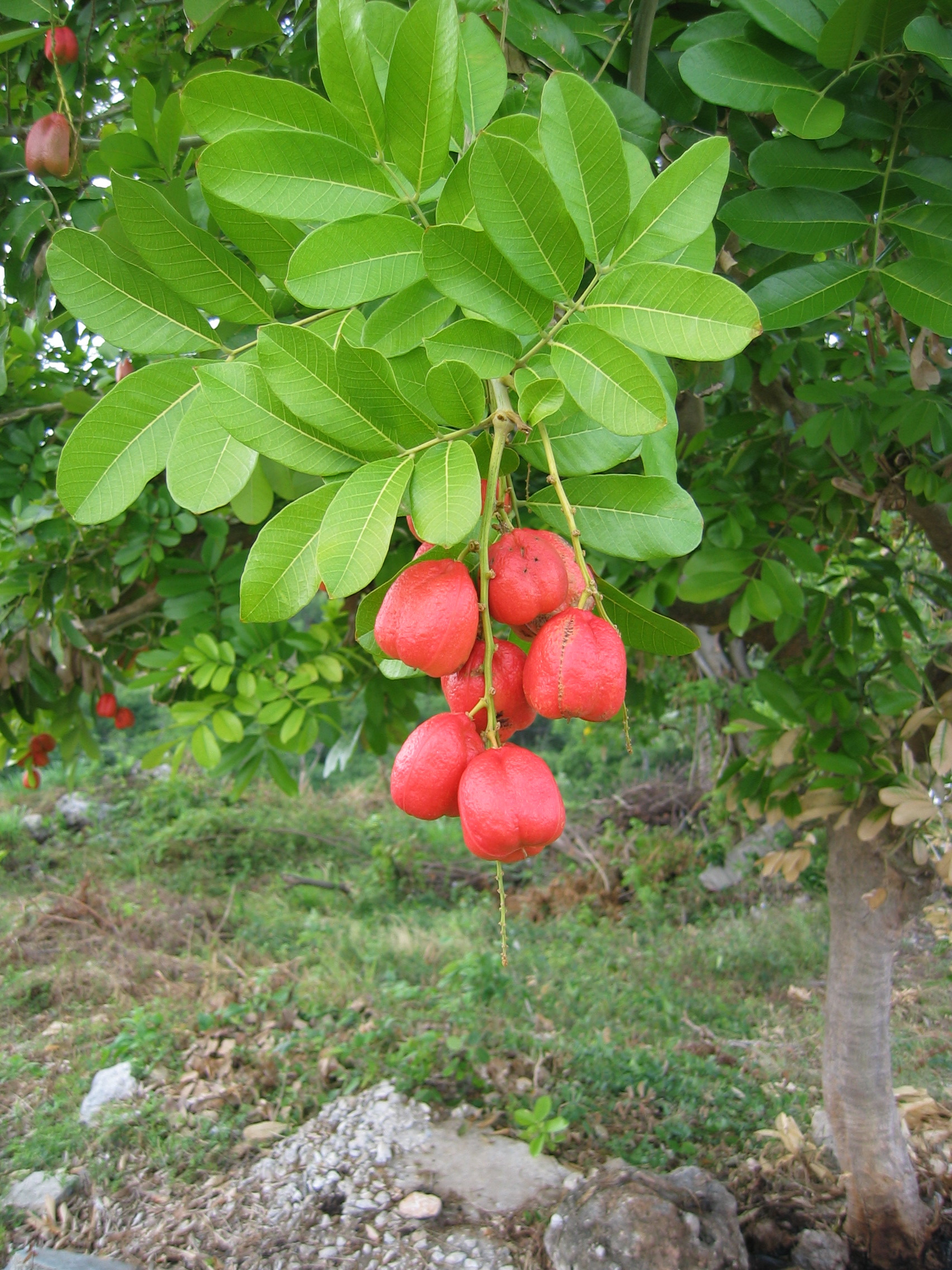 Ackee fruit; poisonous if eaten before it's ripe. Typically eaten with salted cod. Photo was taken in Jamaica